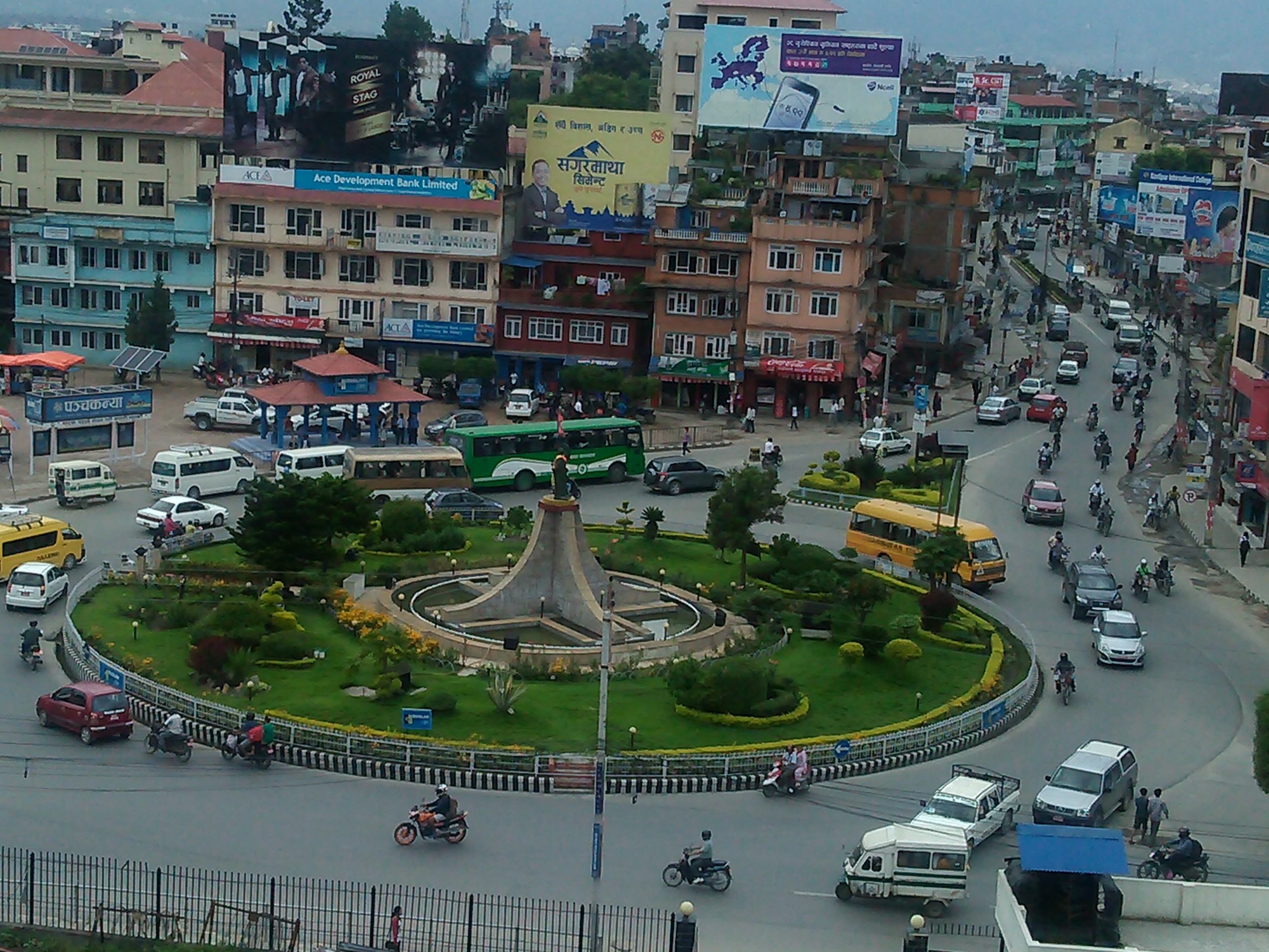 Jawalakhel Chowk , Lalitpur